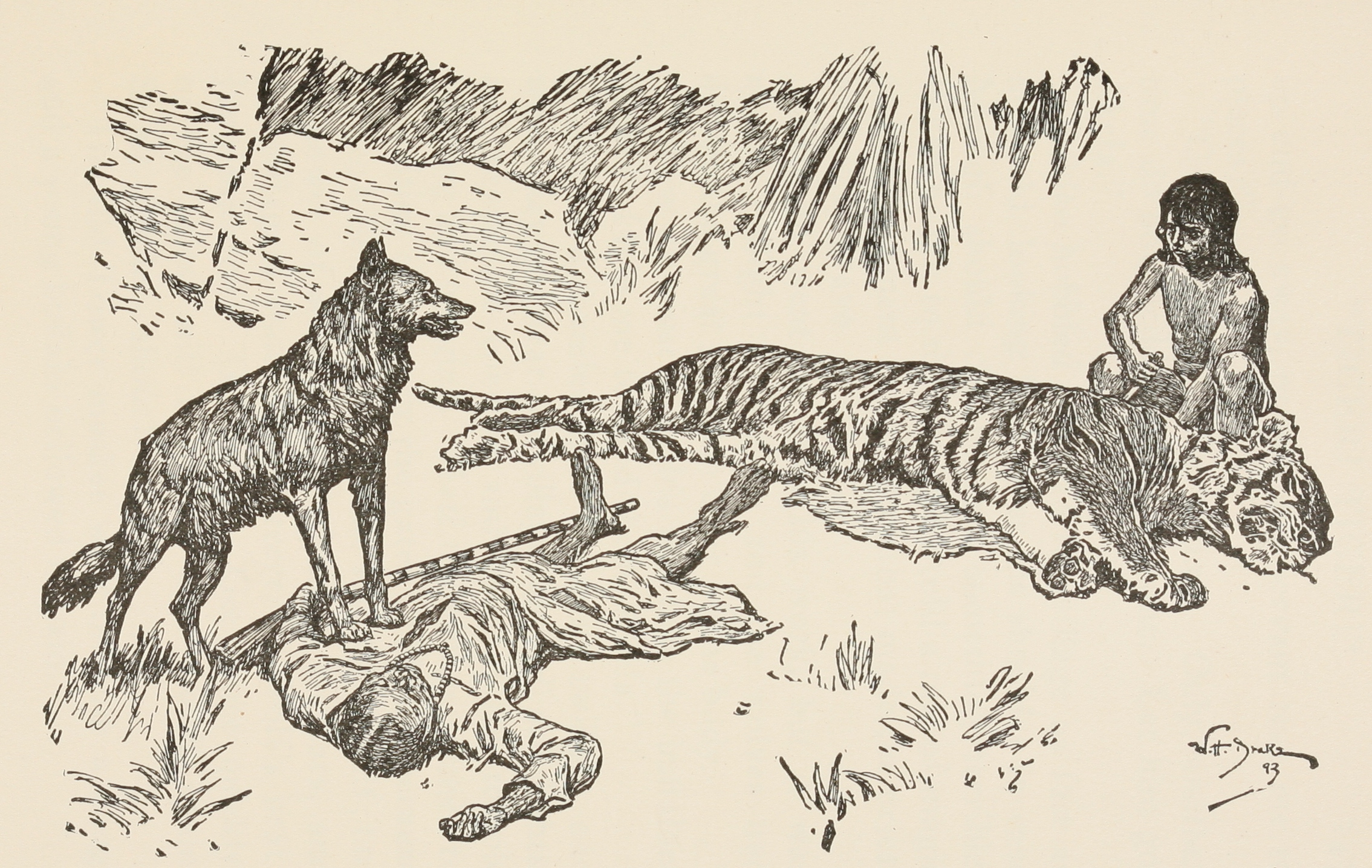 "Buldeo lay as still as still, expecting every minute to see Mowgli turn into a tiger, too."